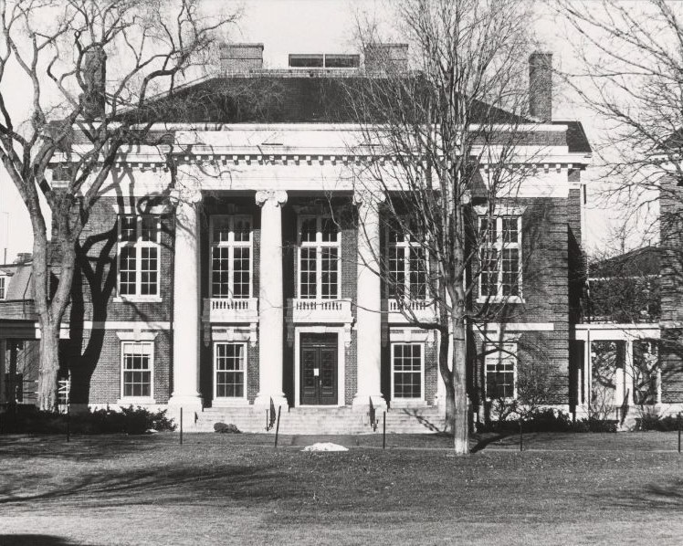 Agassiz House, Radcliffe College